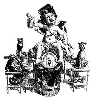 The Logo of the Pithotomy Club